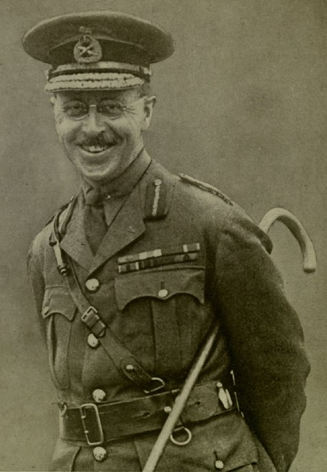 Richard Ernest William Turner VC, KCB, KCMG, DSO, a Canadian army officer during the Boer War and World War I, and a recipient of the Victoria Cross.